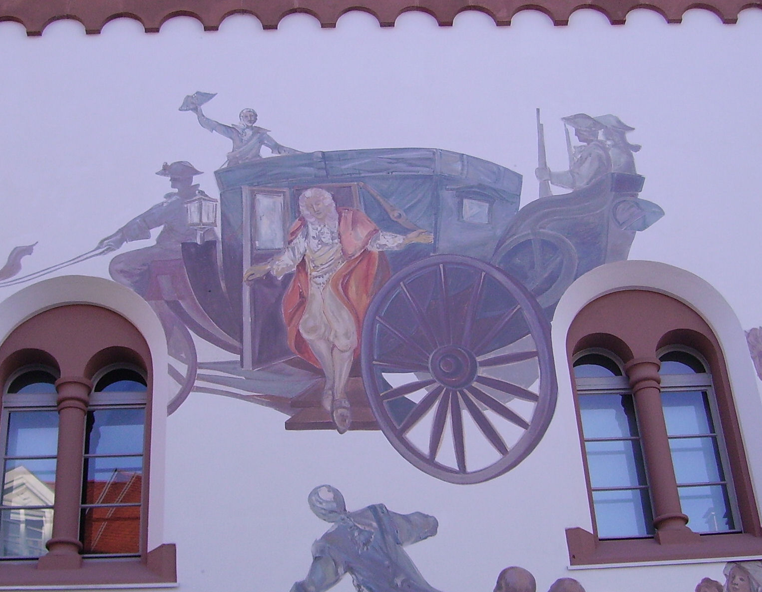 view of Landau (Pfalz), Germany